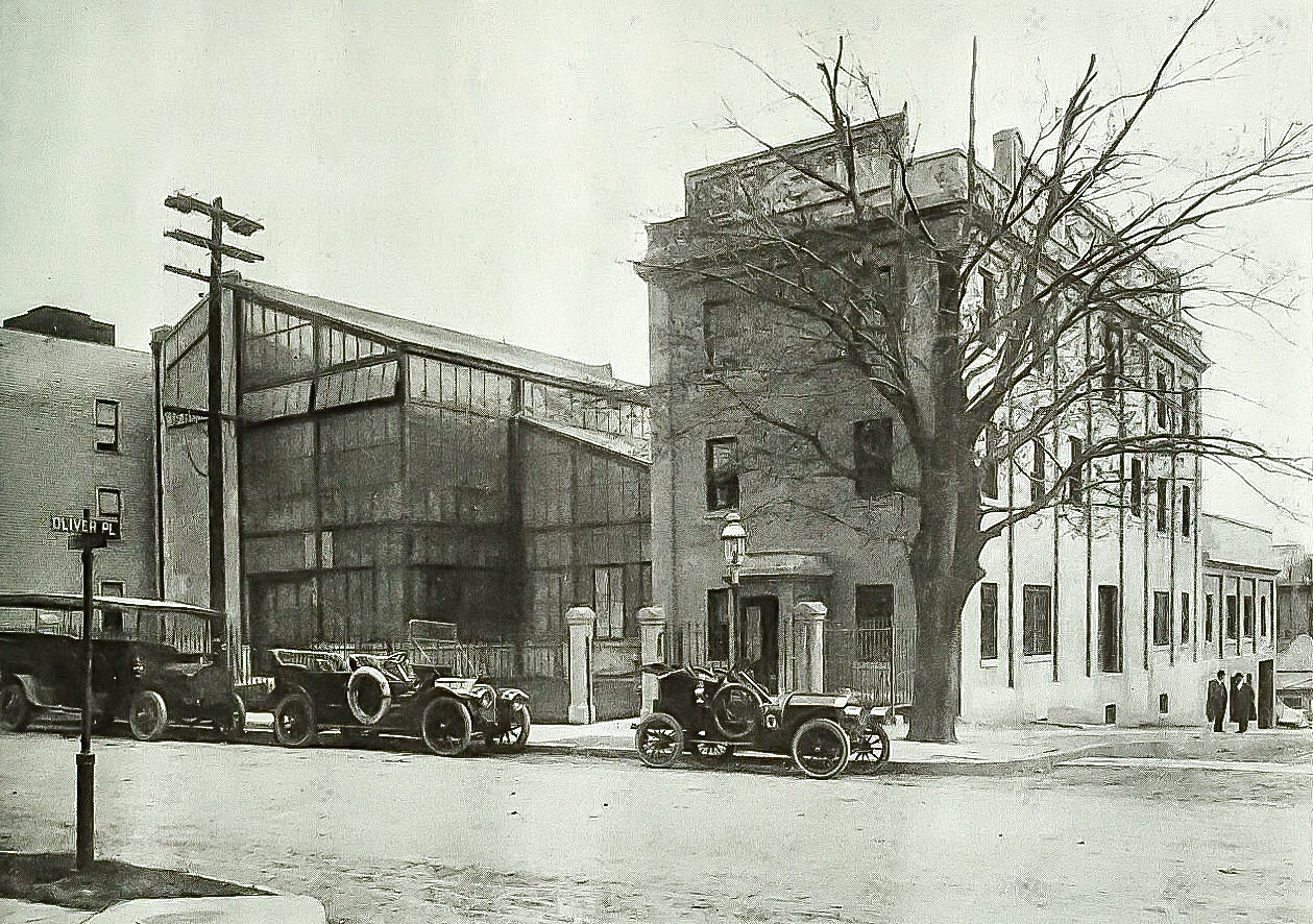 Photograph captioned "The Edison Studio at Bedford Park, New York, N.Y.", wide view of the studio from the street Oliver Place at Bedford Park in The Bronx, including view of main glass-framed building for staging interior film sets; published in The Nickelodeon, January 7, 1911, p. 15; an illustration in the article "Edison Photoplays and Players".